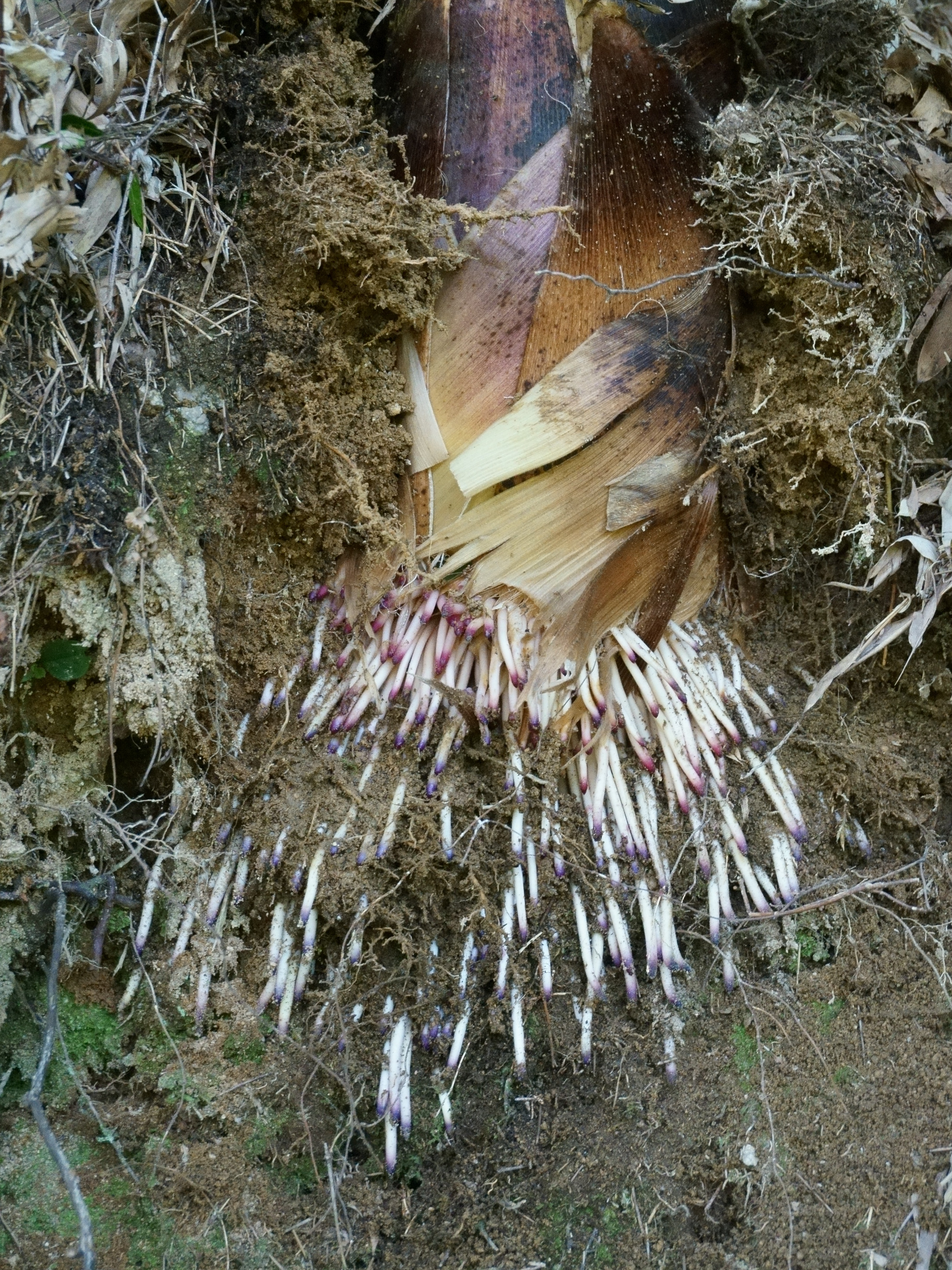 Roots of Phyllostachys eduliss bamboo shoot